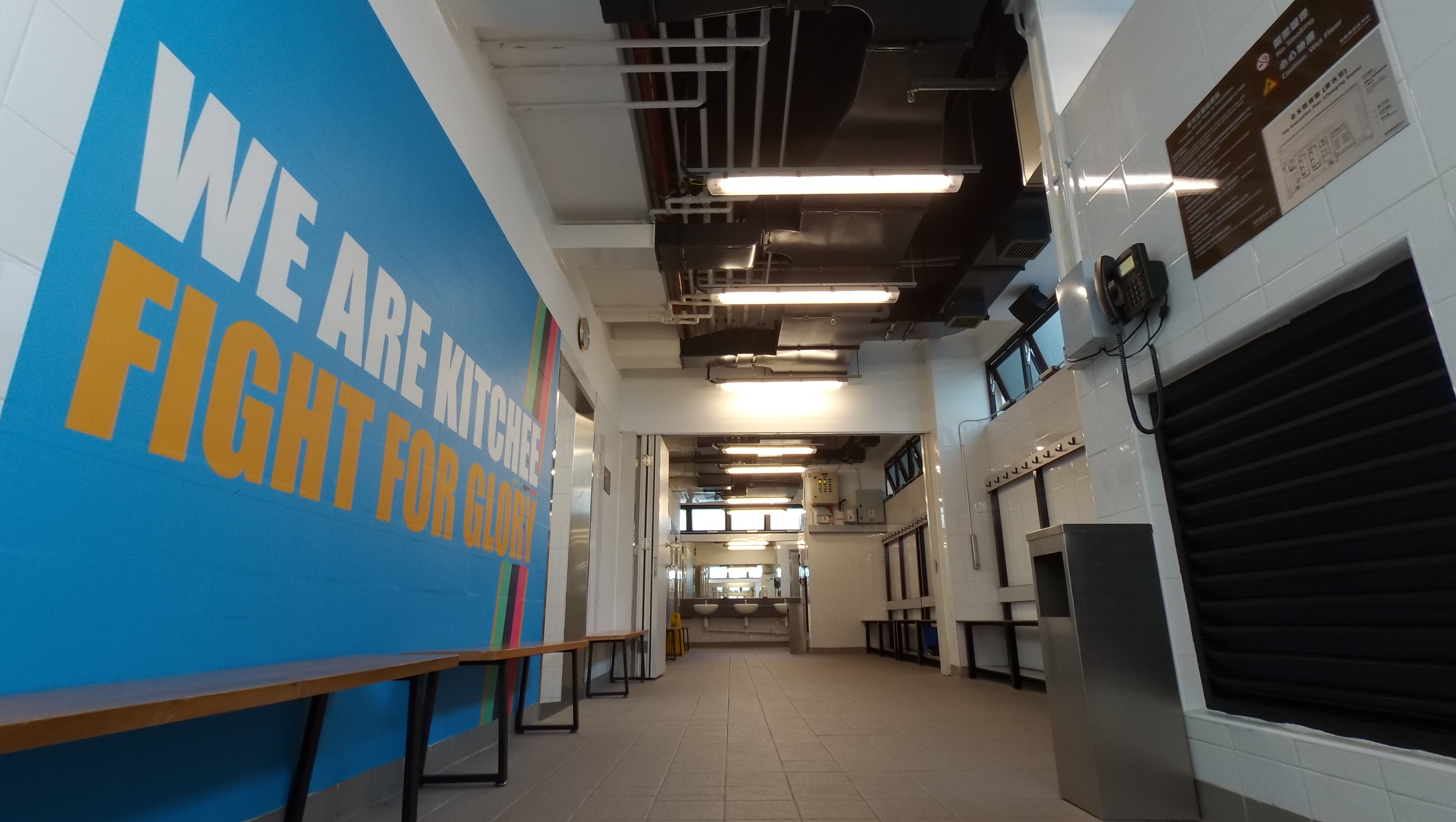 changing room